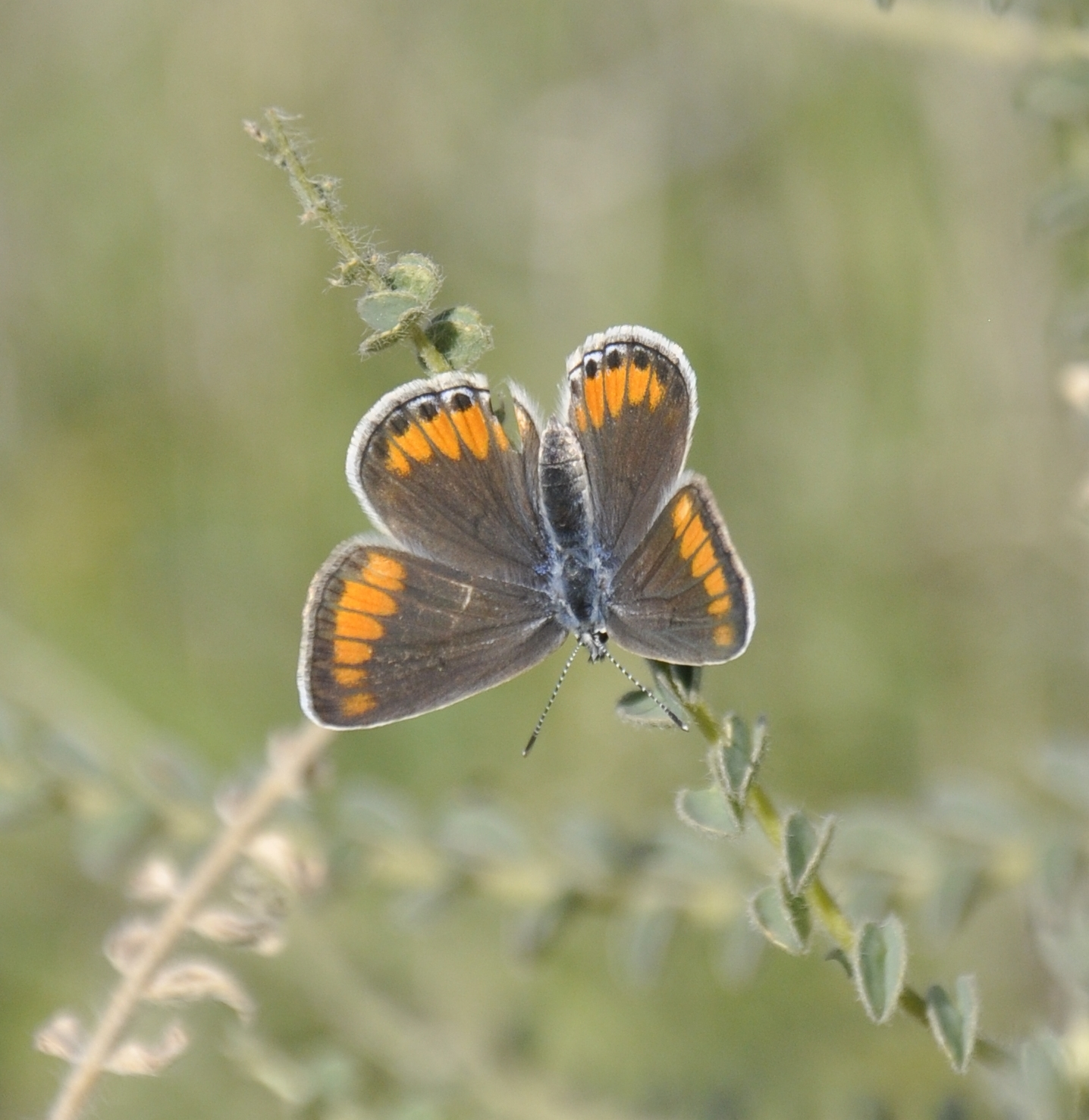 Plebejus pylaon cleopatra female